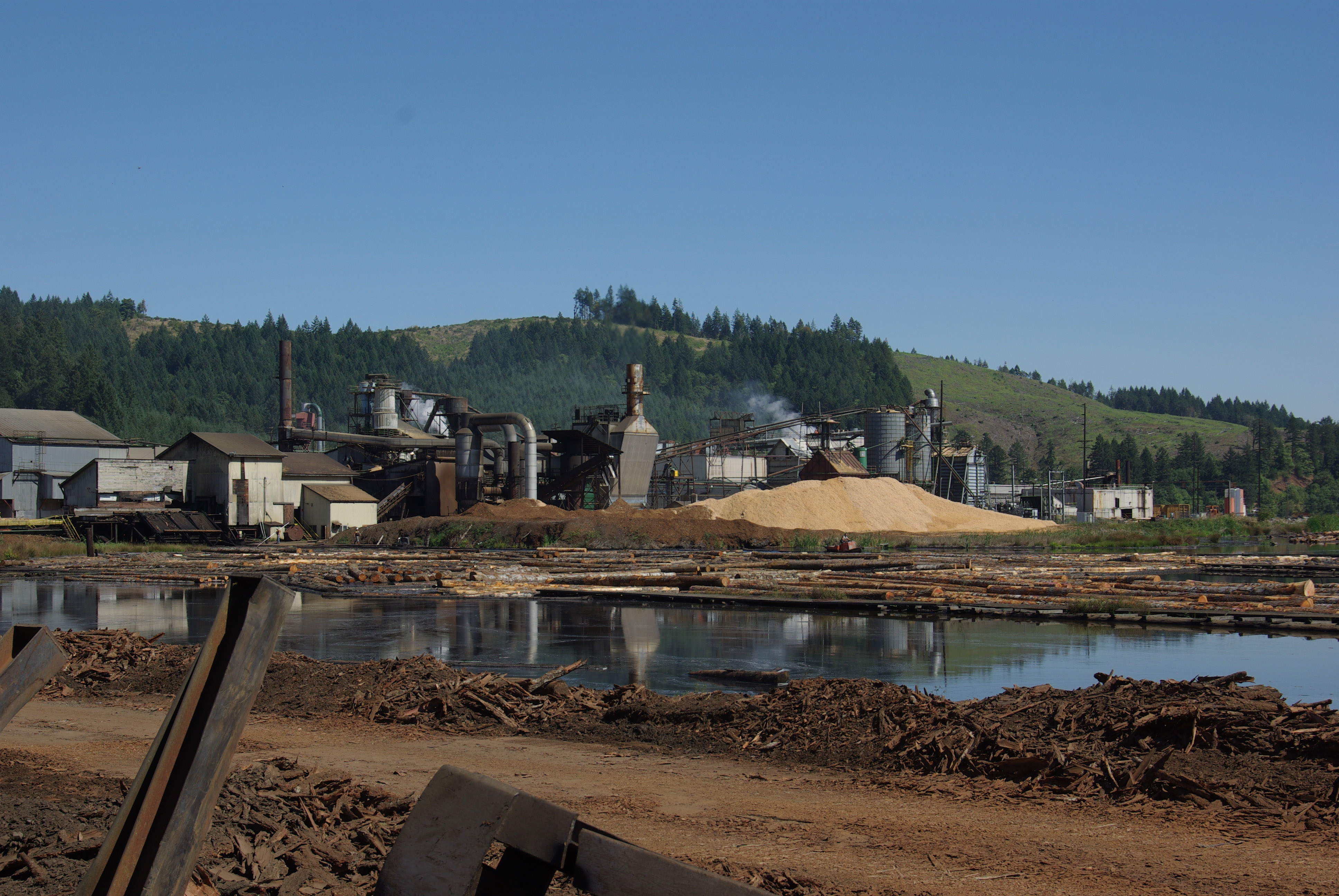 One of the dwindling number of modern sawmills in Oregon that uses a millpond to store logs and move them from storage to the mill. It is very energy efficient: only a small boat is needed to move the logs around.